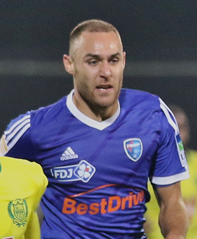 FBBP01 - FCN - 20151028 - Coupe de la Ligue - Jimmy Nirlo